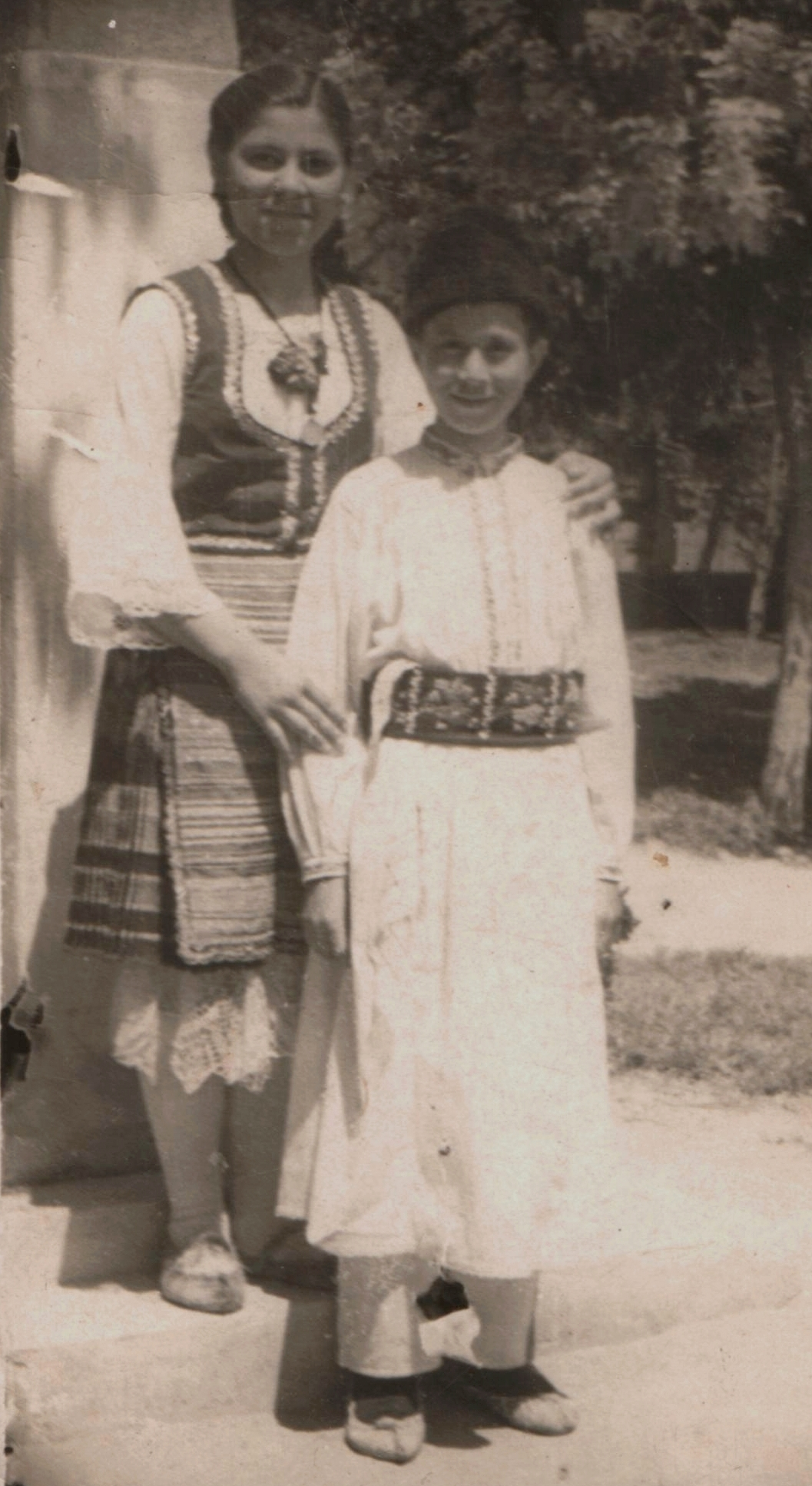 Тraditional costumes